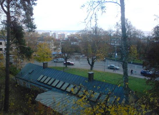 Central Karlskoga, view from the lower part of Rävåskullen, with the roof of the Art Hall in the centre of the image. The church is located just across the street to the right.